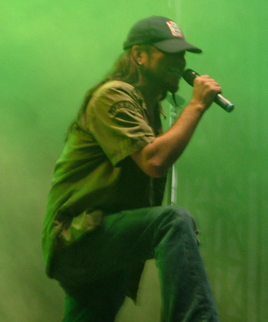 USAmerican progressive metal band Nevermore at the Summer Breeze in Dinkelsbühl